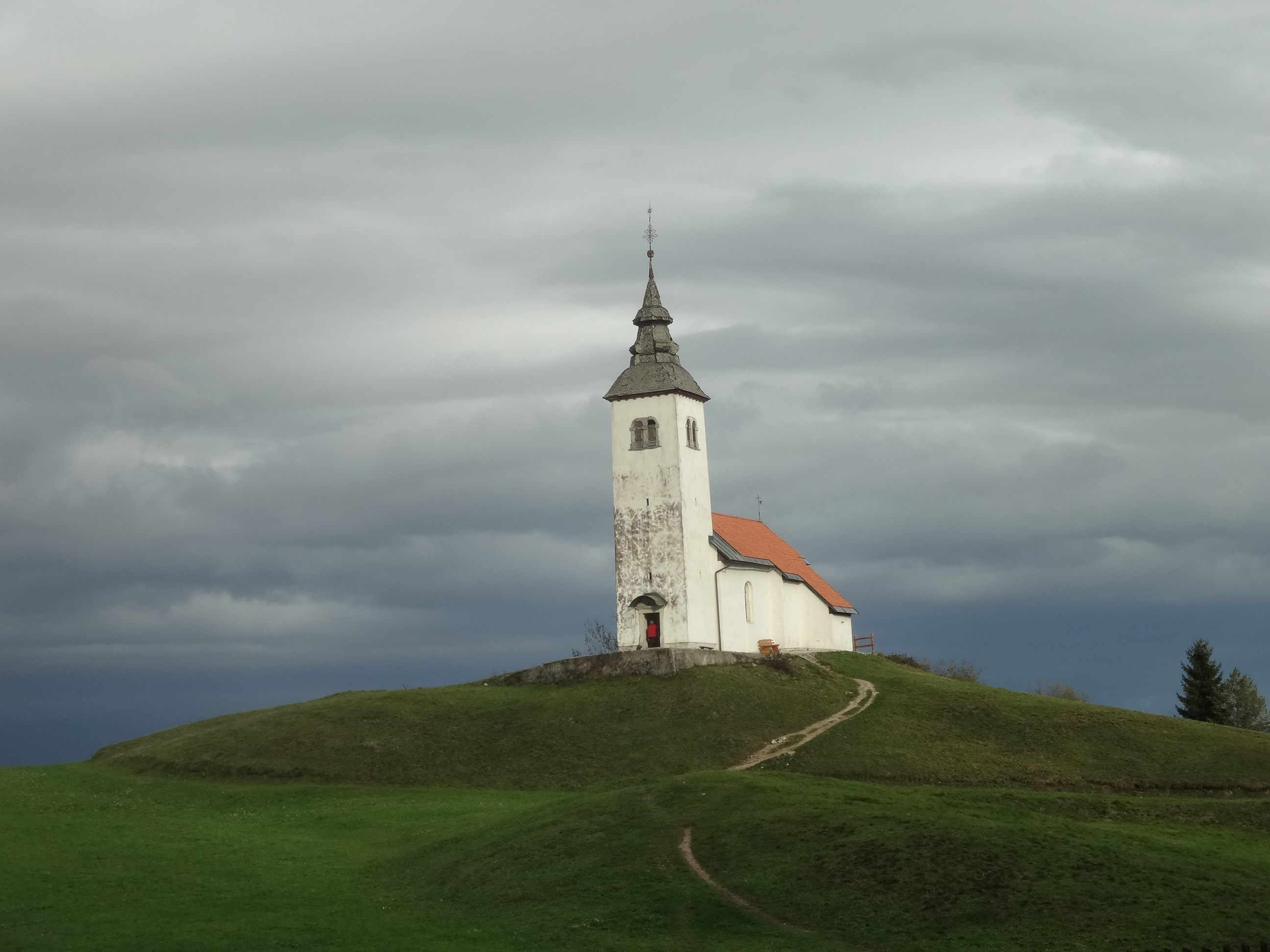 Church of Holy cross on Križna gora near Škofja Loka, Slovenia